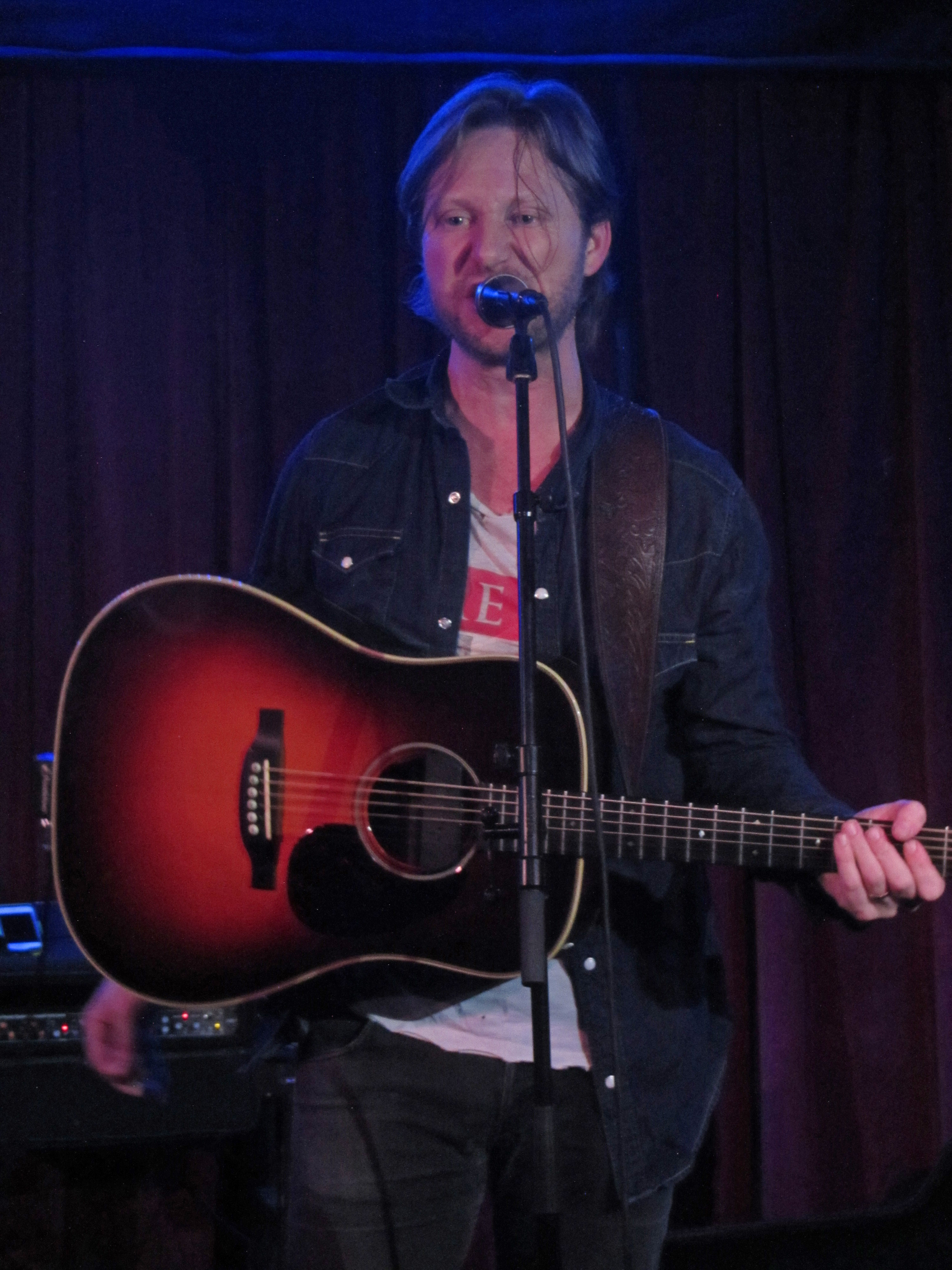 Cory Branan performing in 2015